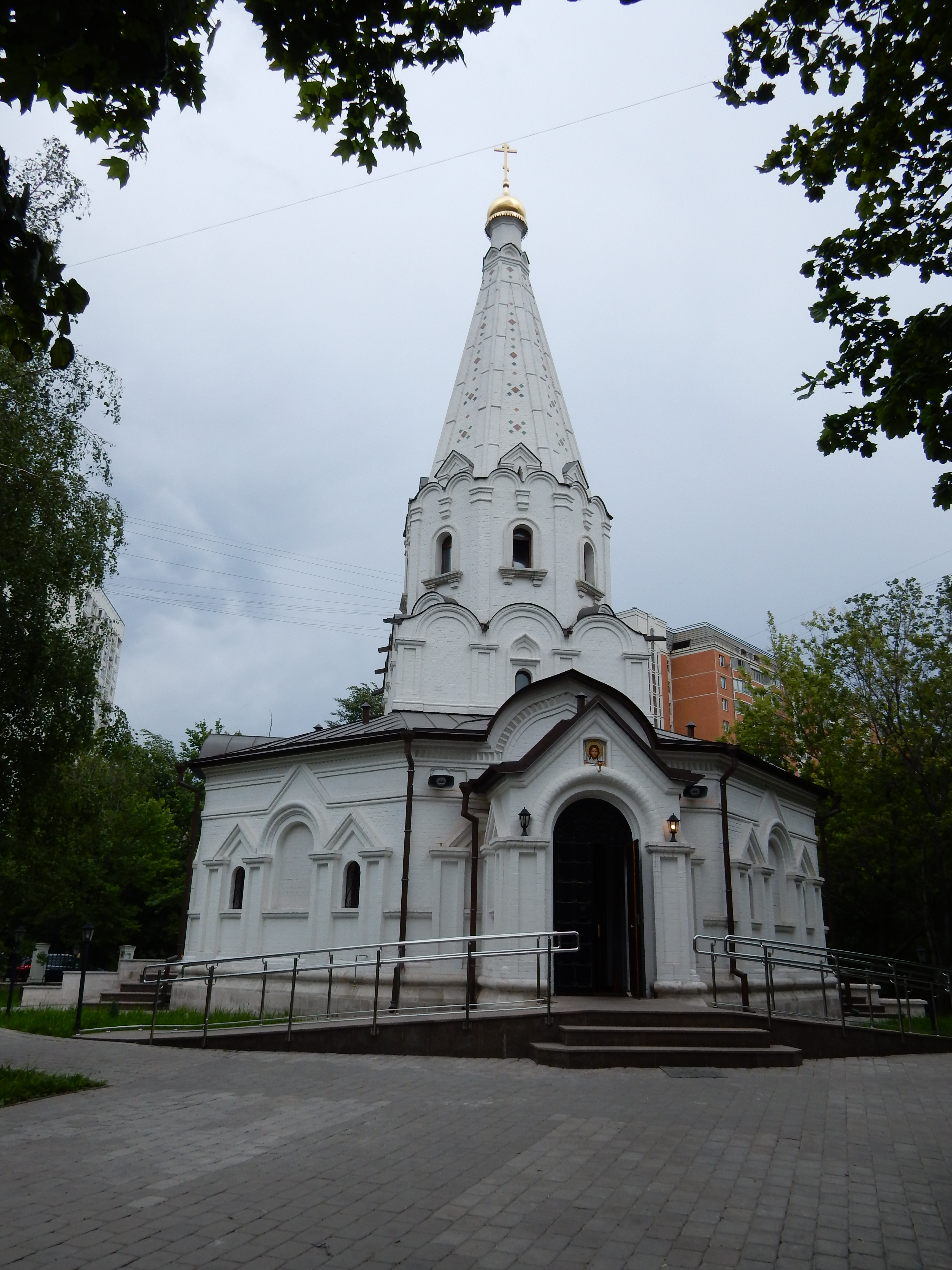 Church-chapel of Dmitry Donskoy, Polyarnaya street 34, Moscow, Russia.